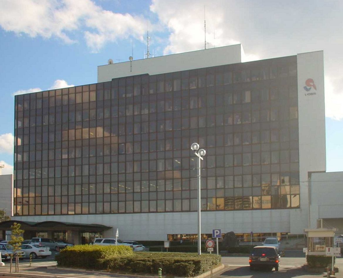 Iwaki City Hall in Fukushima Preferture, Japan